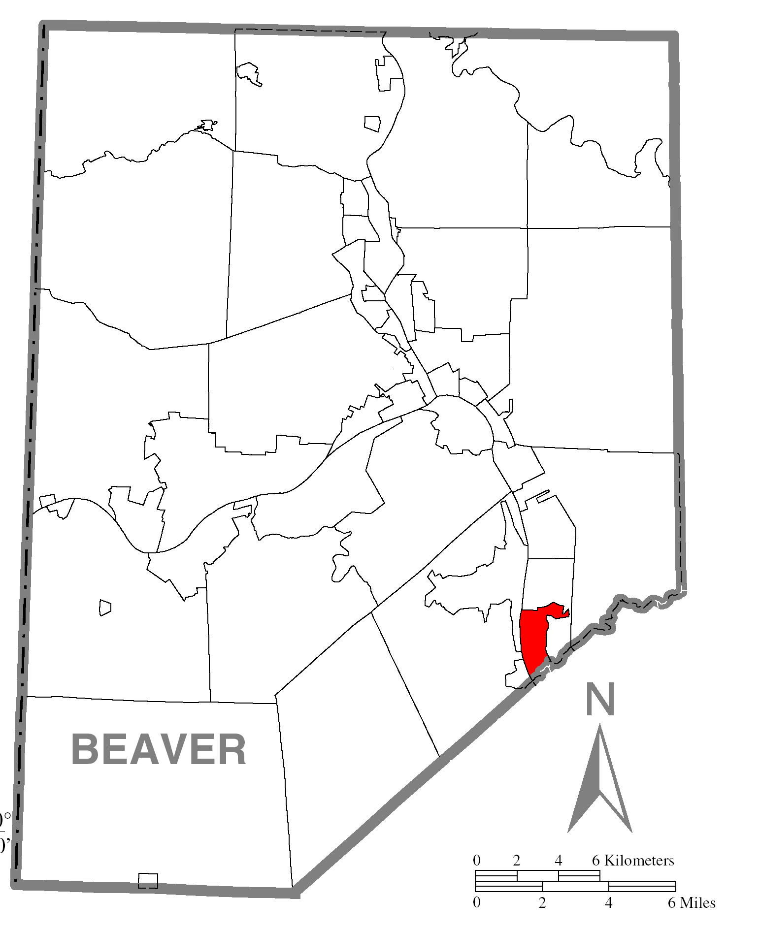 A map of Beaver County showing Ambridge, Pennsylvania (alternate) highlighted on the map.